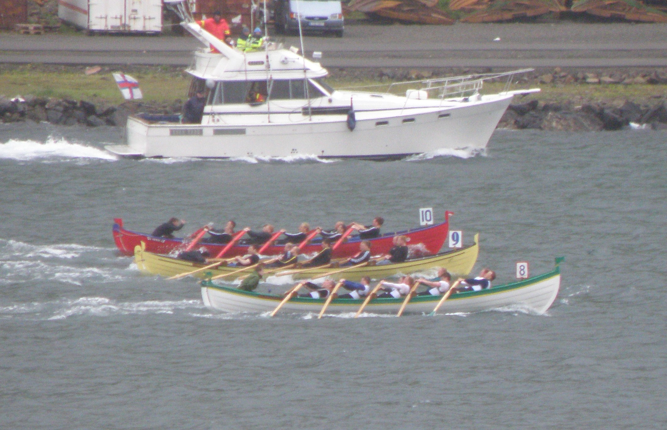 Boat race at Jóansøka in Vágur, Faroe Islands in the category 10-mannafør. Only men row in these kind of boats. It is the largest type of wooden Faroese rowing boats which participate in the boat races around the islands every summer in June and July. These three boats are: Hoyvíkingur (the red boat), Eysturoyingur (the yellow boat) and Vestmenningur (the white and green boat). The result was Eysturoyingur number one, Vestmenningur number two (only one second after the other one) and Hoyvíkingur number three. Føroyskt: Kappróður á jóansøku í Vági 2010. Tað eru 10-mannaførini ið rógva kapp. Vinnarin gjørdist Eysturoyingur við tíðini 4:25.05, Vestmenningur gjørdist nummar tvey við tíðini 4:26.11 og Hoyvíkingur nummar trý við tíðini 4:28.02.